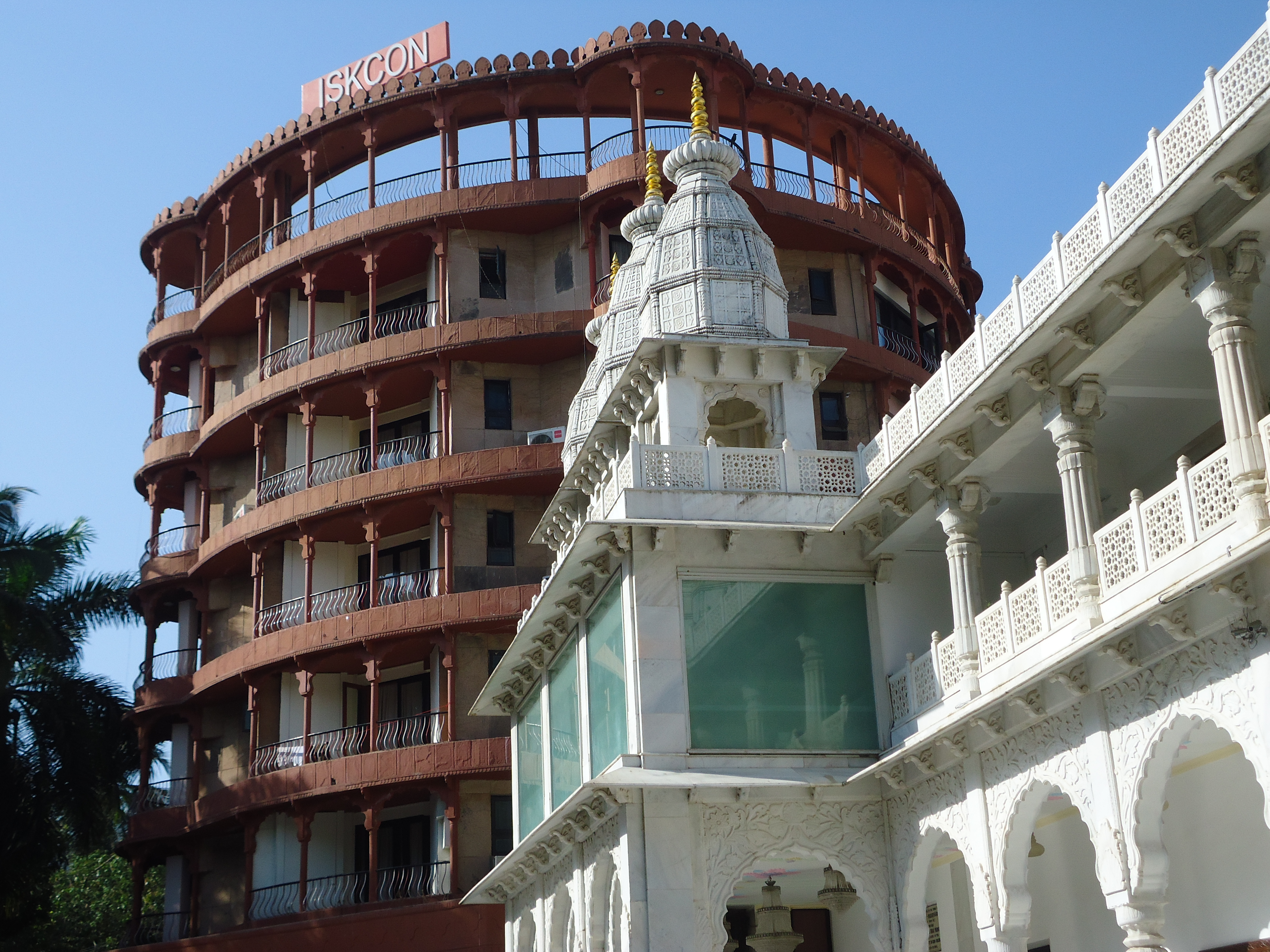 The International Society for Krishna Consciousness (ISKCON) temple, located in Juhu, Mumbai, India.